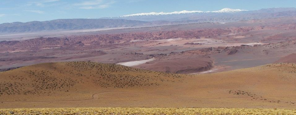 This picture shows the view at 4650 meters over the see from the Macón peak.